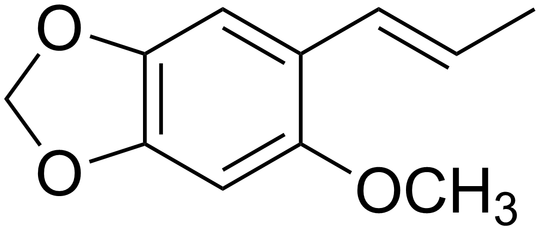 chemical structure of carpacin